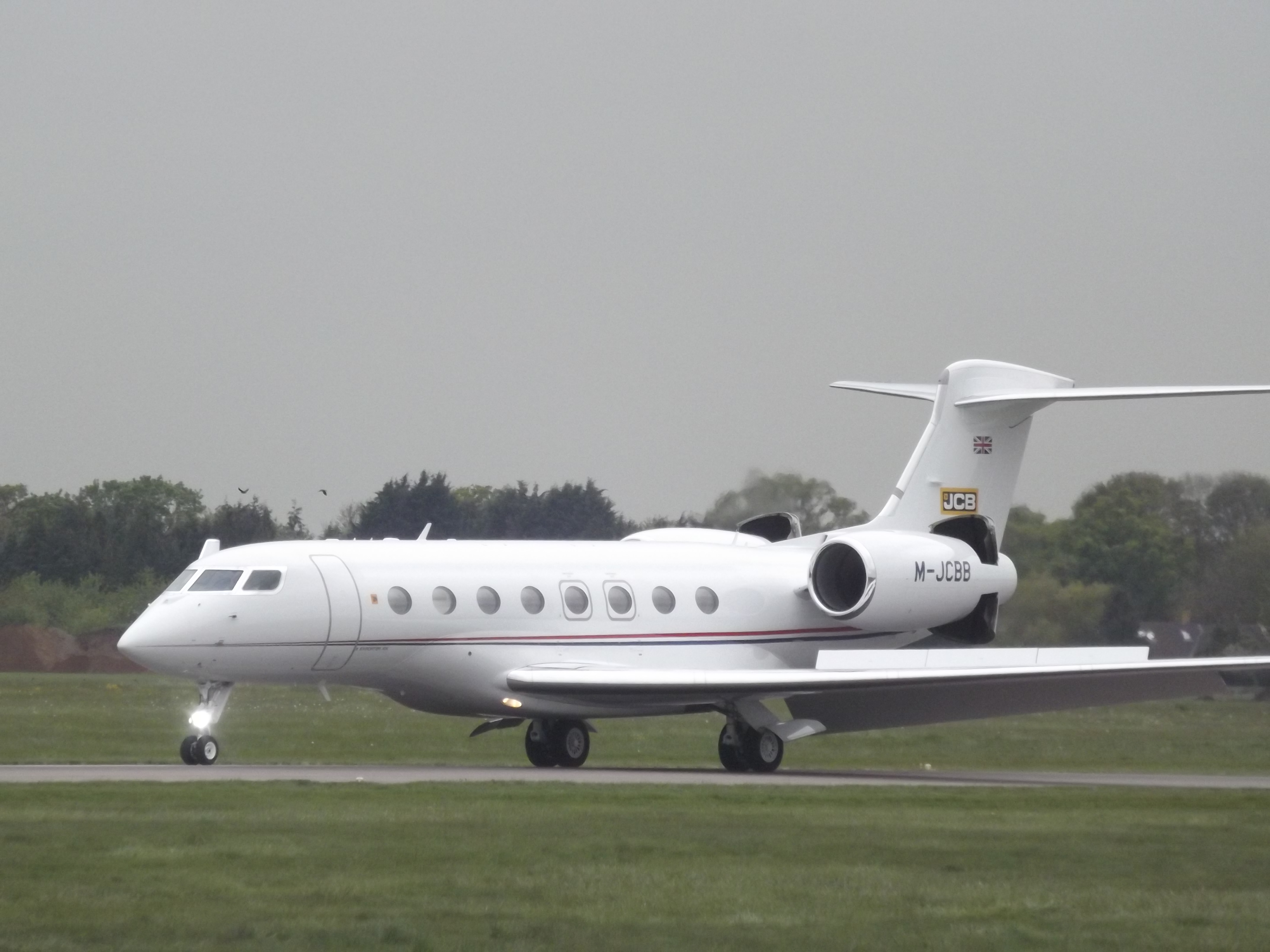 At Oxford Airport.